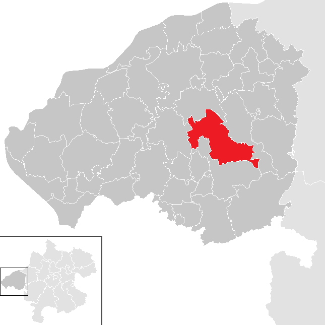 district Braunau am Inn